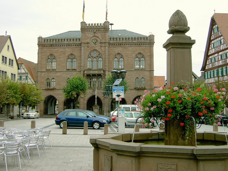 Town hall of Tauberbischofsheim from 1865